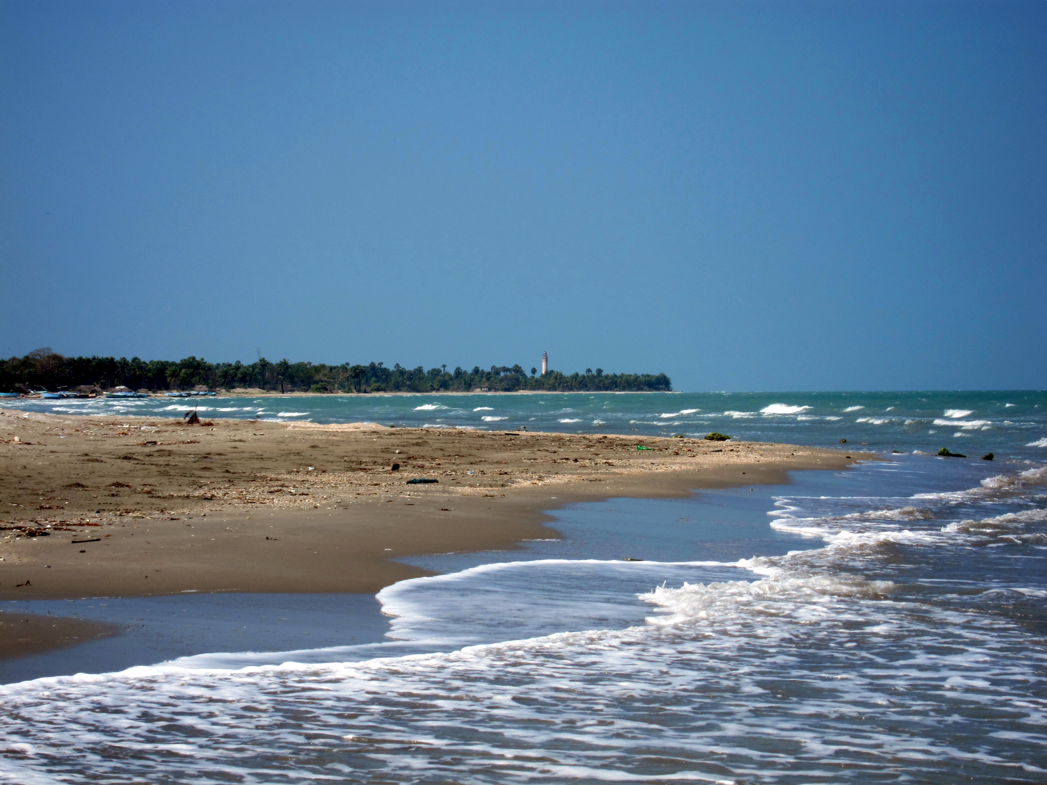 lighthouse in distance